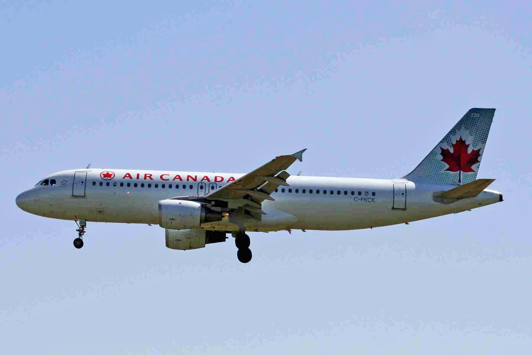 A picture of an airplane (name of it is on the file name).